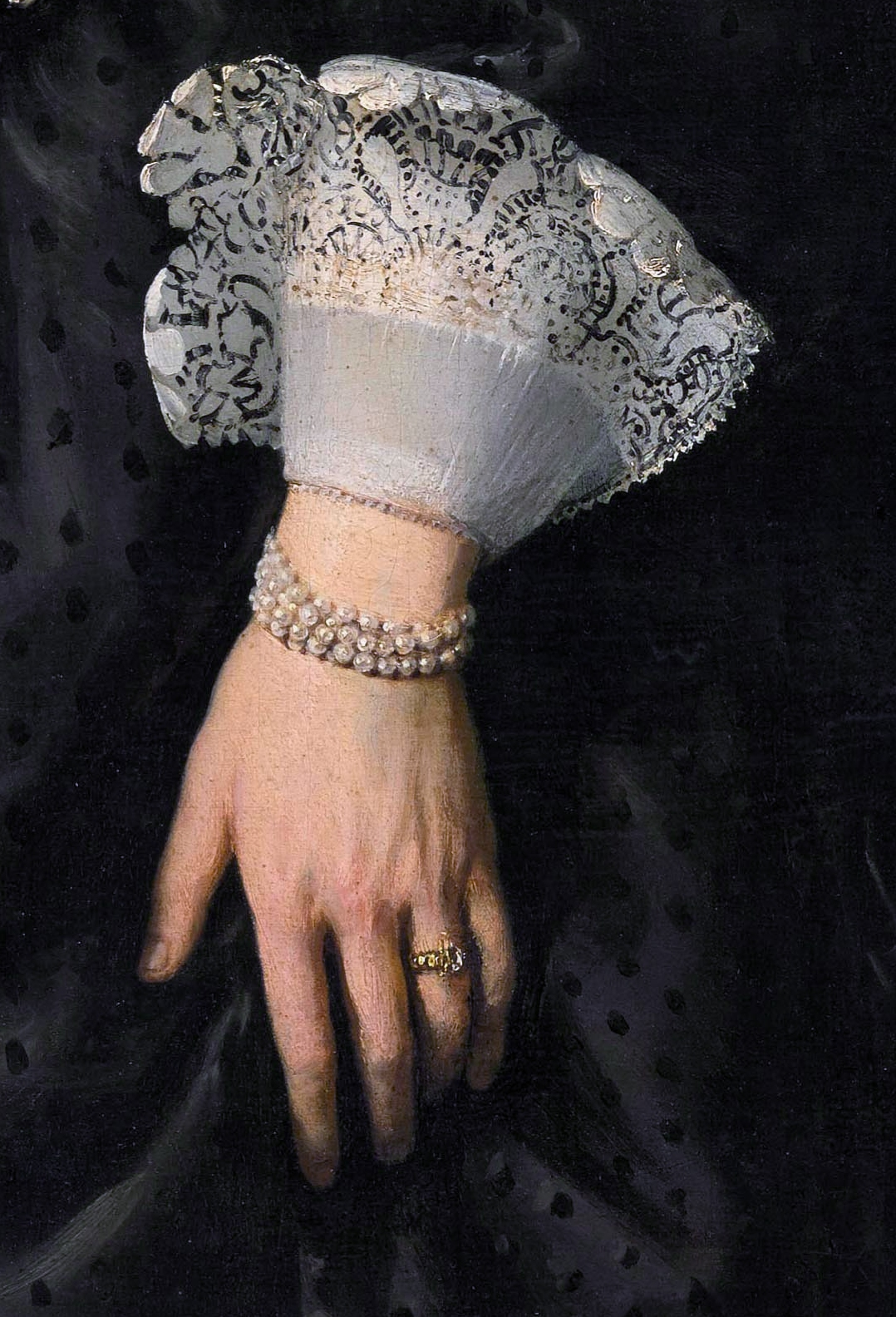 Detail of the hand of Oopjen Coppit with Cuffs and pearl bracelet.